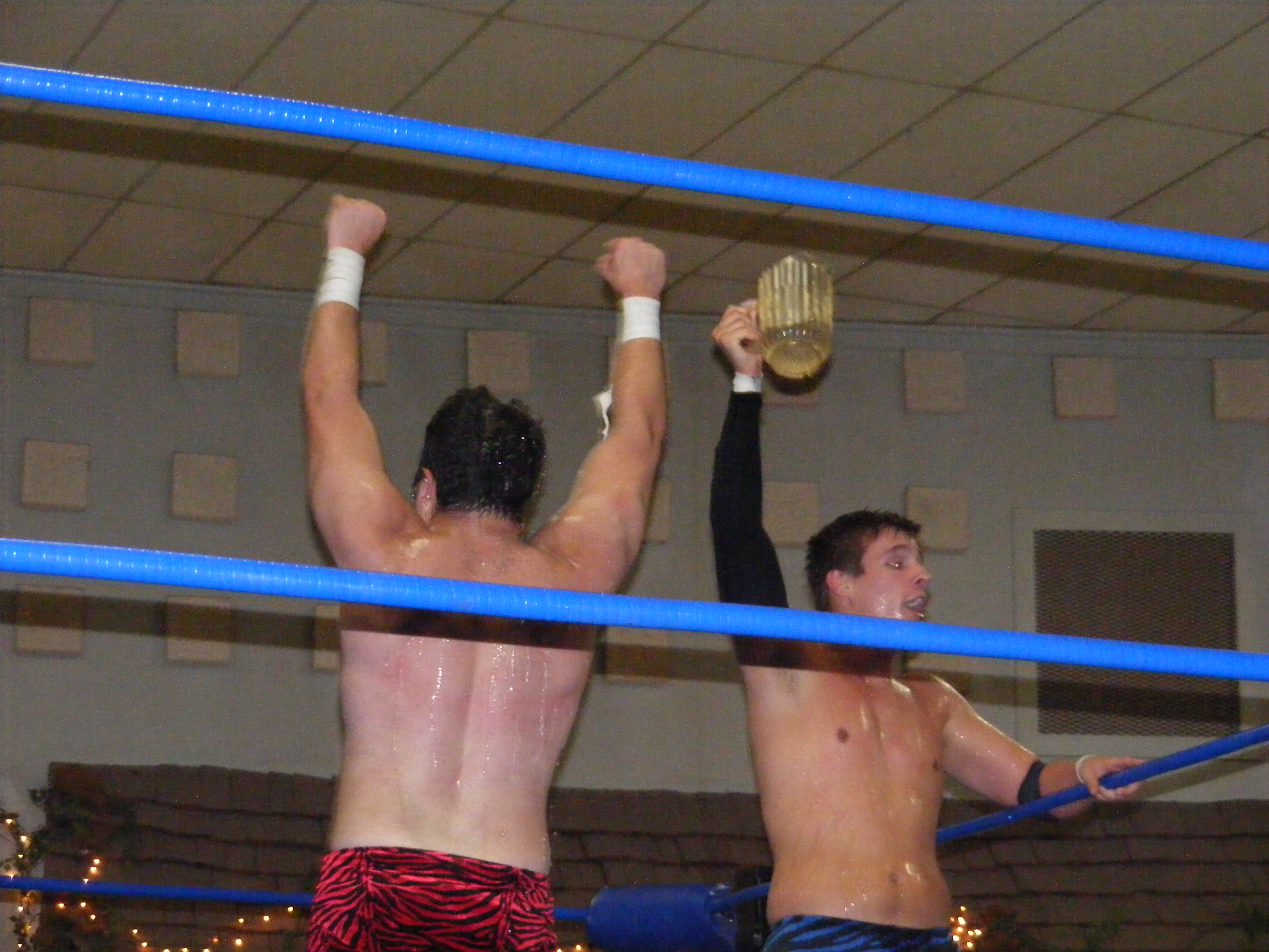 Professional wrestlers Shane Matthews and Scott Parker at a Chikara event